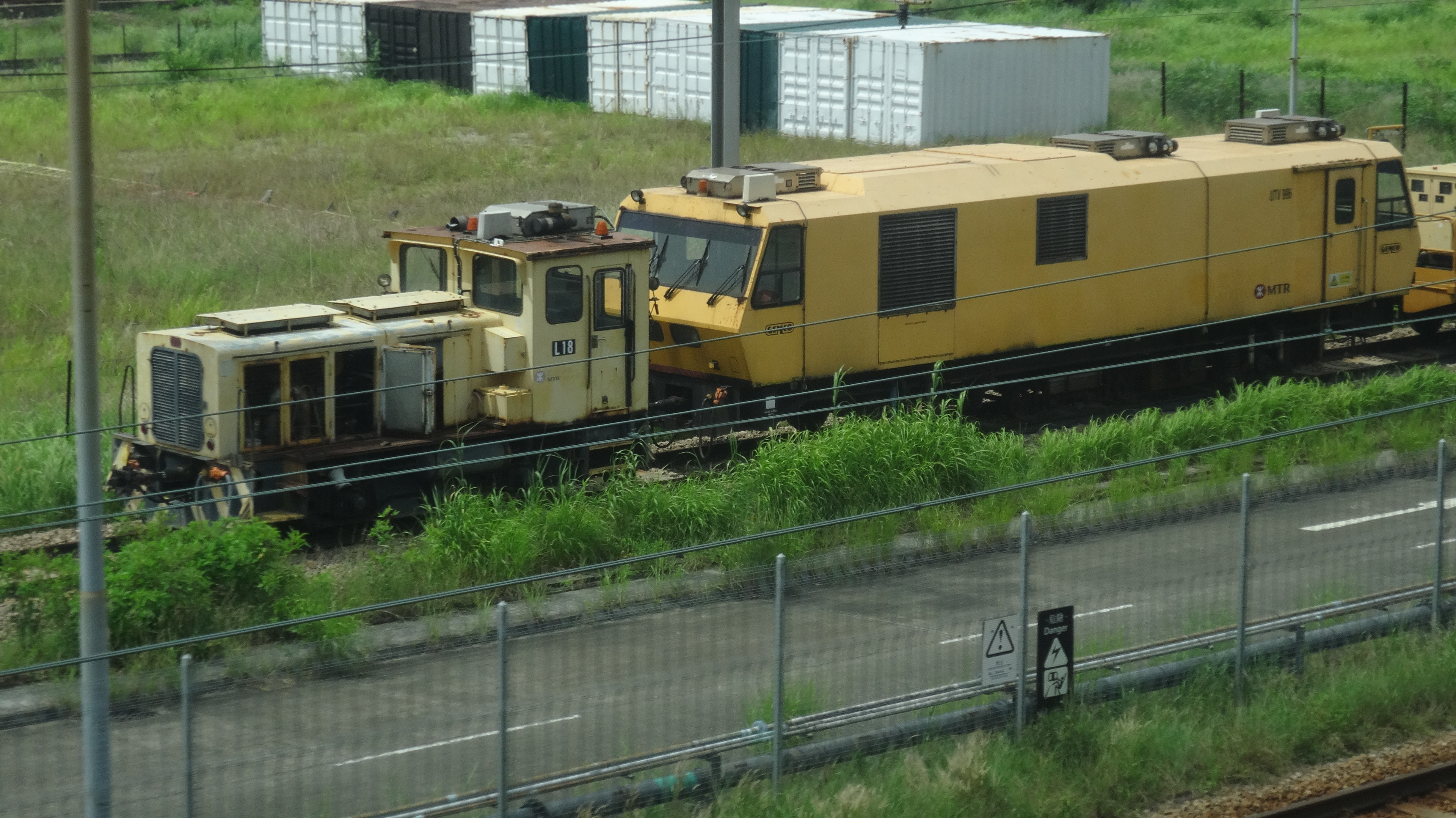 MTR D.Loco. L18+UTV996@SHD